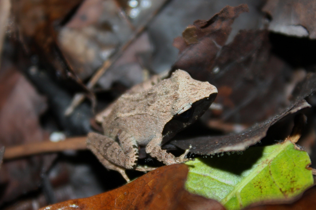 Found during the day in amongst leaf litter on Bohol. This was smaller than the other P. corrugatus frog found at the same location, juvenile perhaps or male? Thanks to Arvin Diesmos for the identification.